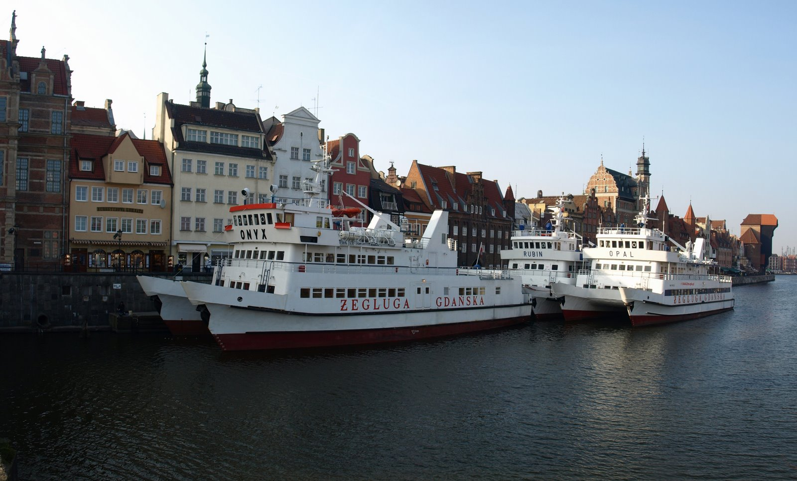 Photographs of the Ołowianka Island Complex: Polish Baltic Philharmonic, Central Maritime Musem and Hotel Królewski